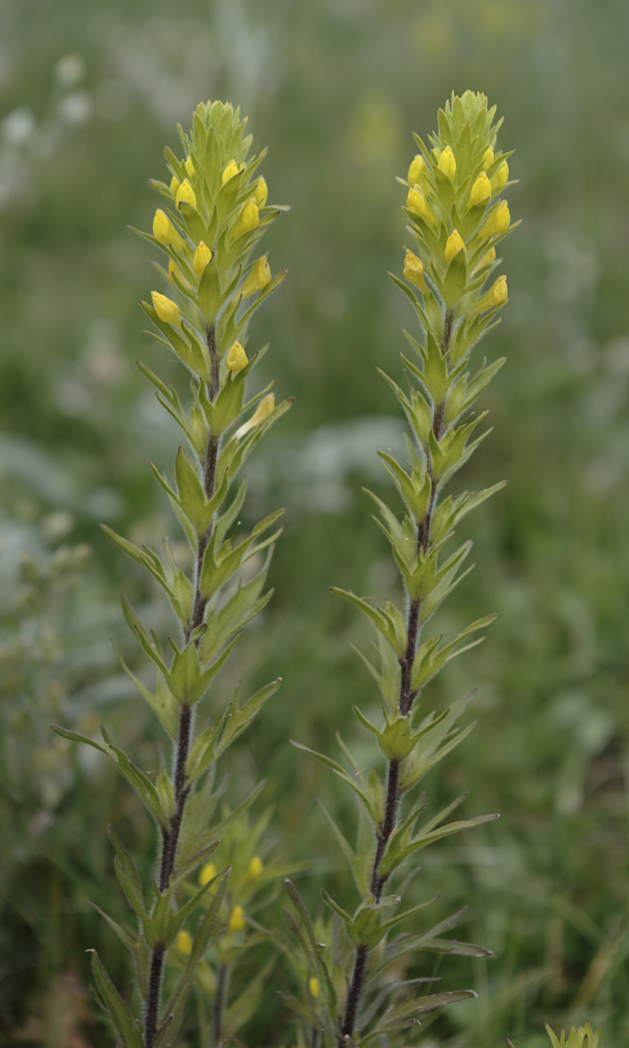 Orthocarpus luteus — Yellow Owl's-Clover. On hill east of Grass Mountain, in the Pecos Wilderness of the Santa Fe National Forest, in San Miguel County, New Mexico.